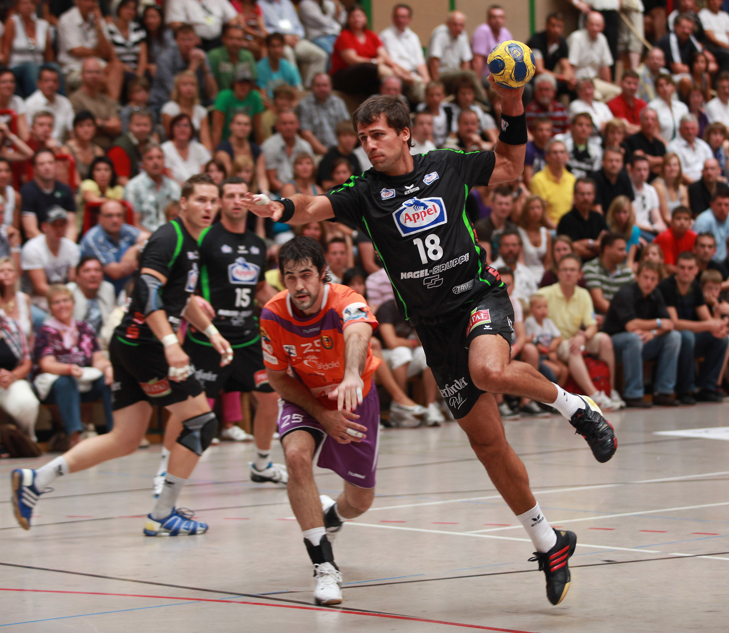 Tamás Mocsai, Hungarian handball player from TBV Lemgo during the Schlecker Cup 2009 in Ehingen (Germany)